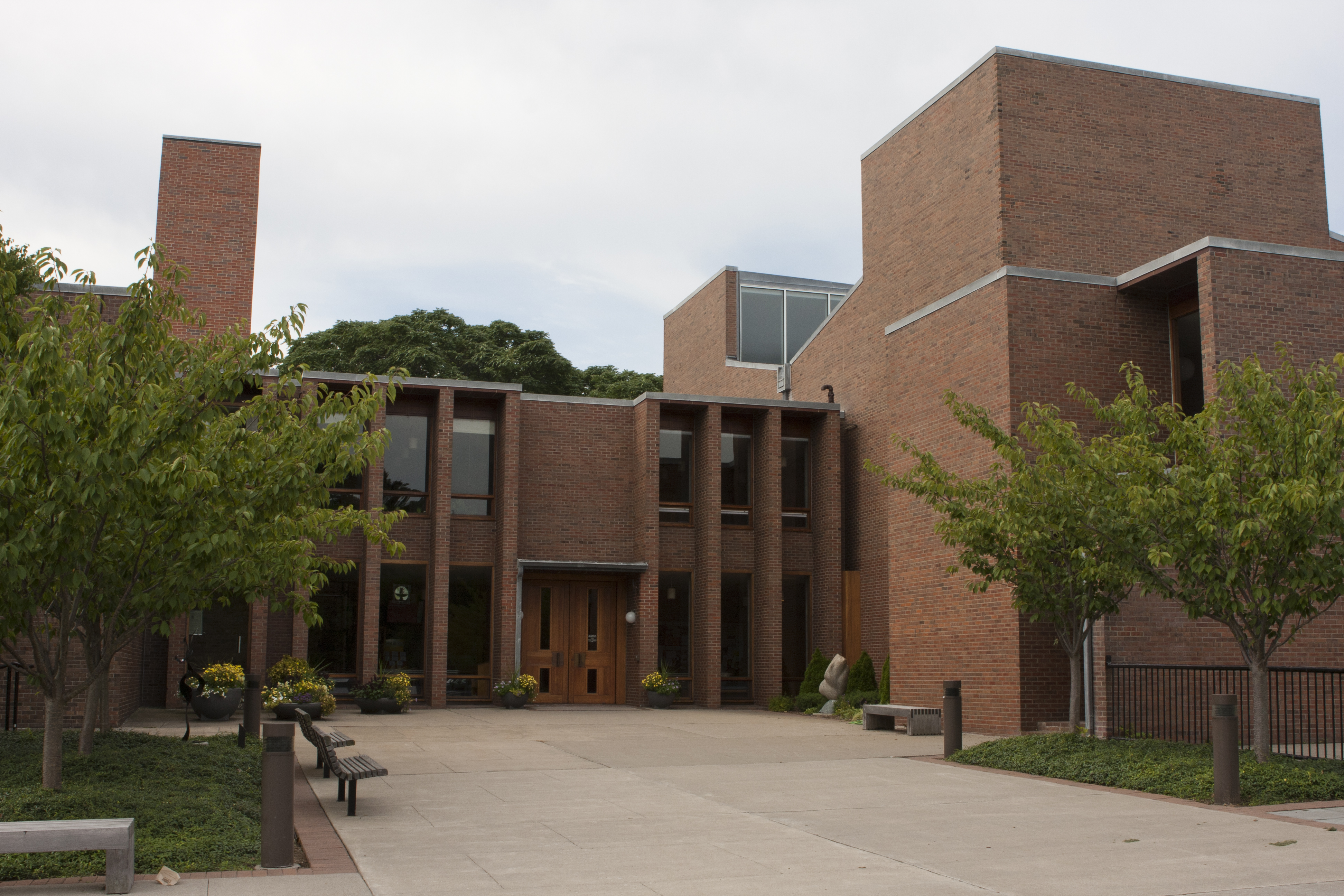 First Unitarian Church of Rochester Front Entrance on North side